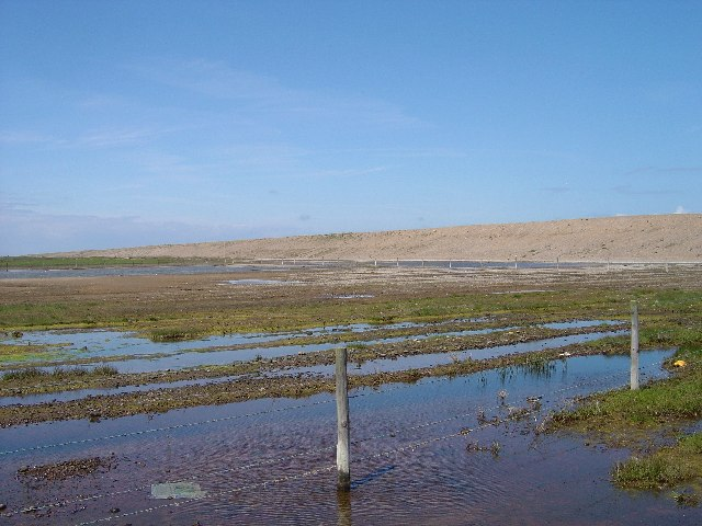 Salthouse Marsh. Saltmarsh in the foreground with the shingle bank behind.